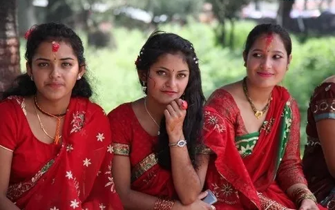 Chhetri ladies of Kshatriya community in cultural saree dress from Nepal